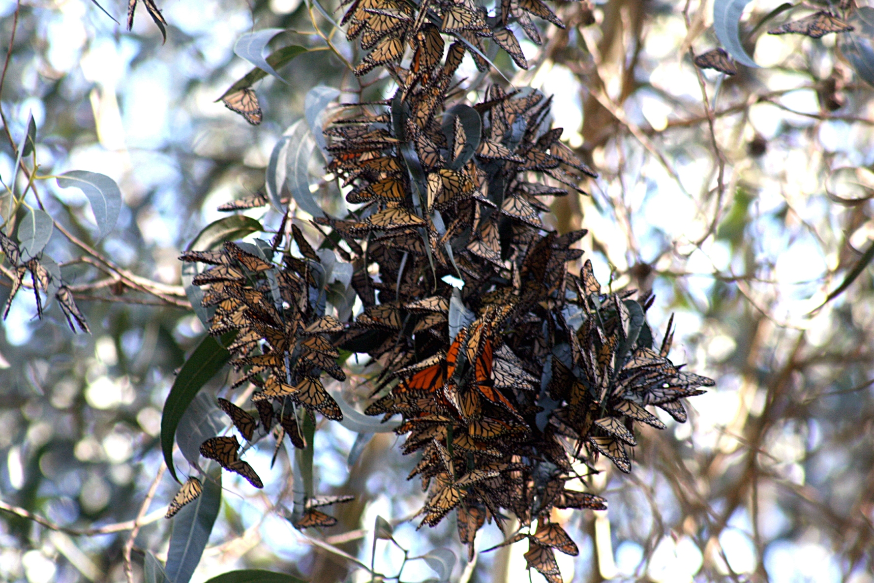 Monarch butterflies cluster in :Santa Cruz. Monarch butterflies migrate to Santa Cruz to spend a winter. During migration Monarch butterflies travel up to three thousand miles. No other butterflies migrate like the Monarchs of North America. Even more amazingly, the butterflies that make the journey are the great-great-grandchildren of the butterflies that left the migration place the previous spring, yet somehow they find their way to the same roosting spots, sometimes even the same trees.